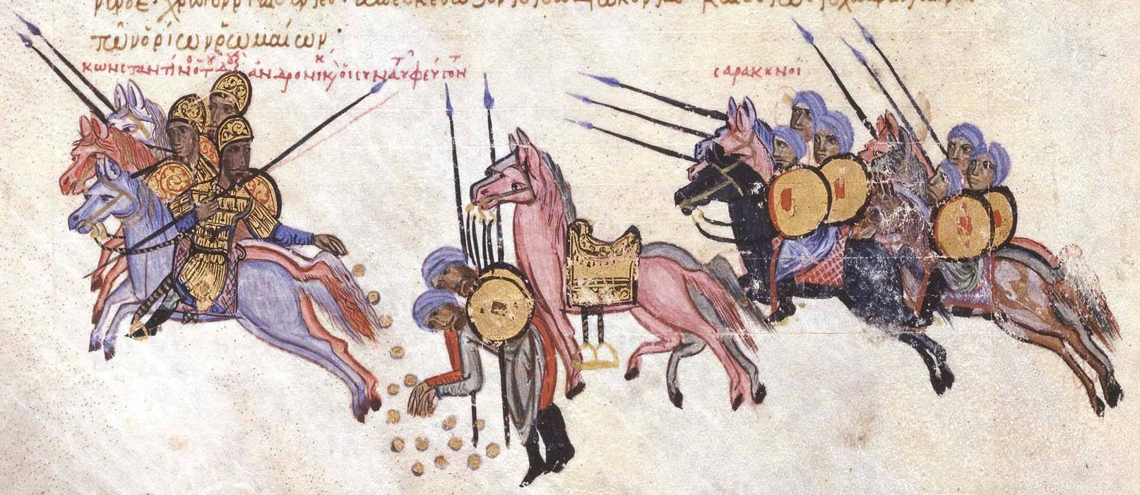 Byzantine general Constantine Doukas escapes from Arab captivity in ca. 908, from the Madrid Skylitzes manuscript.